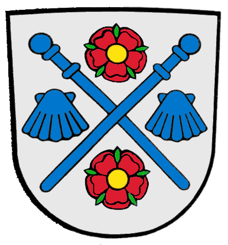 Coat of Arms of Effeldorf in Dettelbach